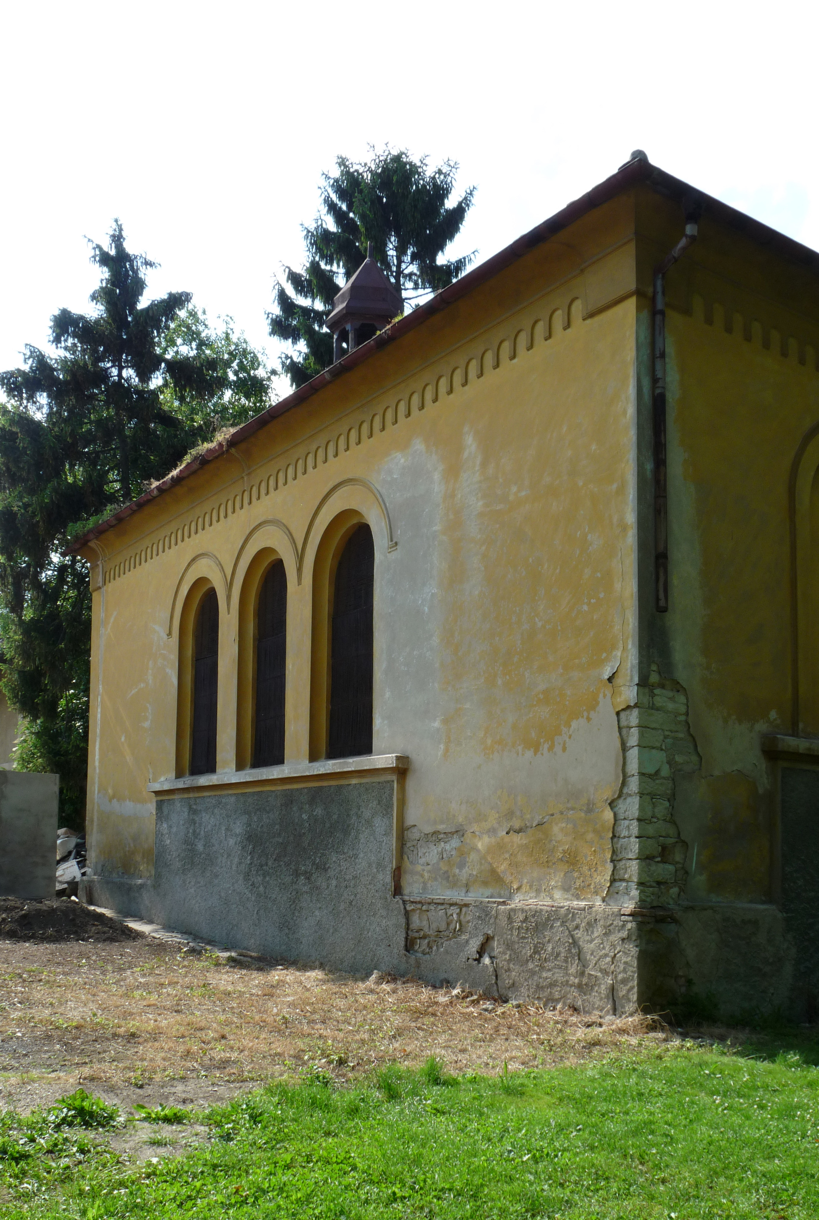 Former synagogue the village of Třebívlice, Litoměřice District, Ústí nad Labem Region, Czech Republic.